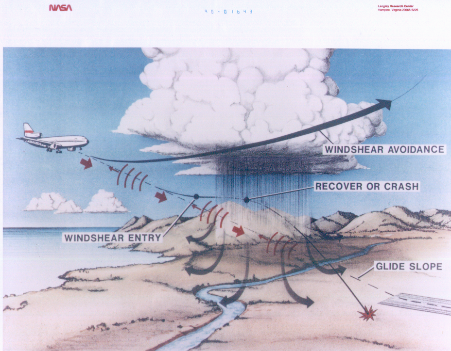 Sketch showing affect of wind shear during aircraft descent into an airport.